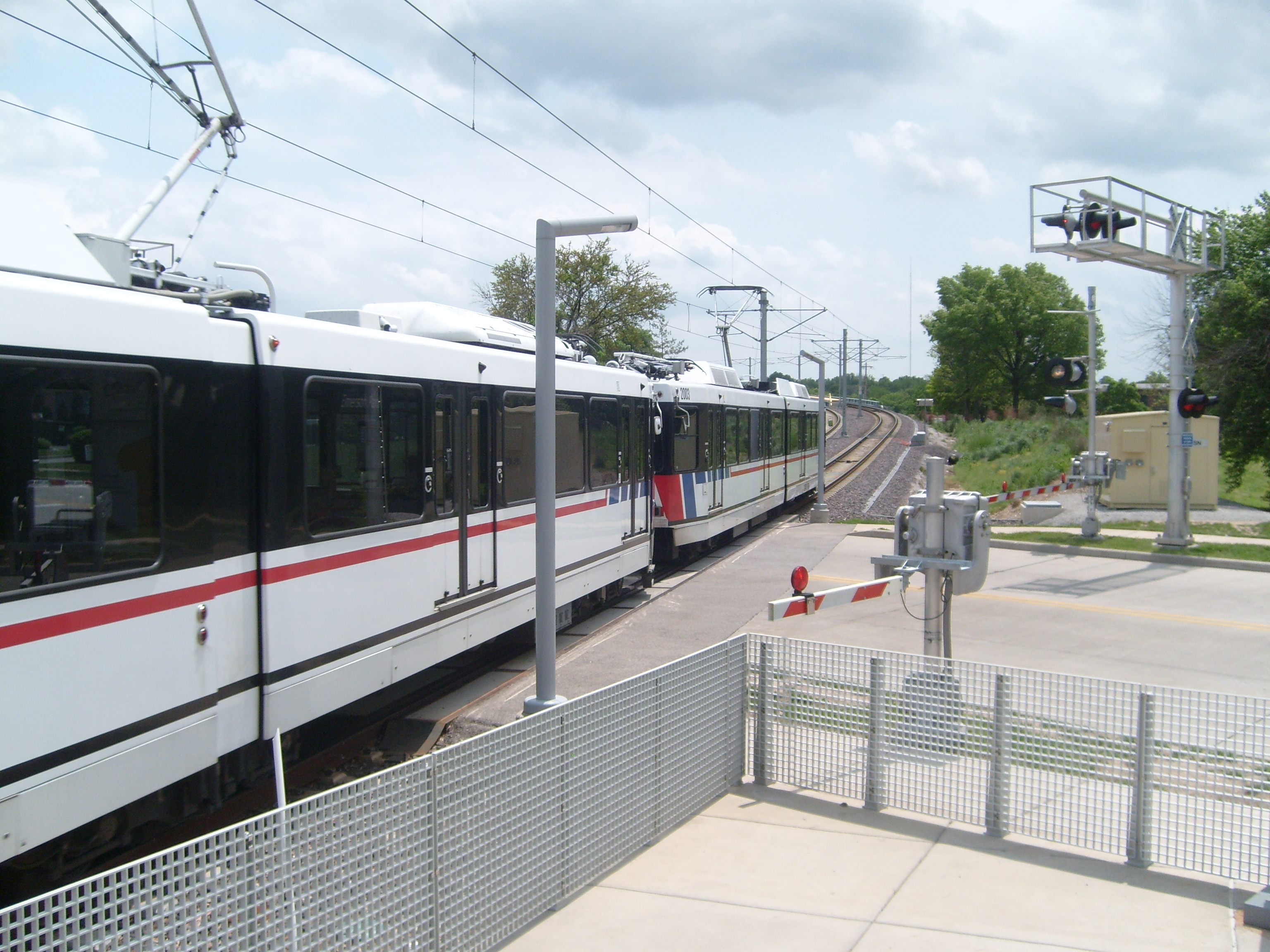 It's a picture of a Metrolink train crossing an at grade crossing.